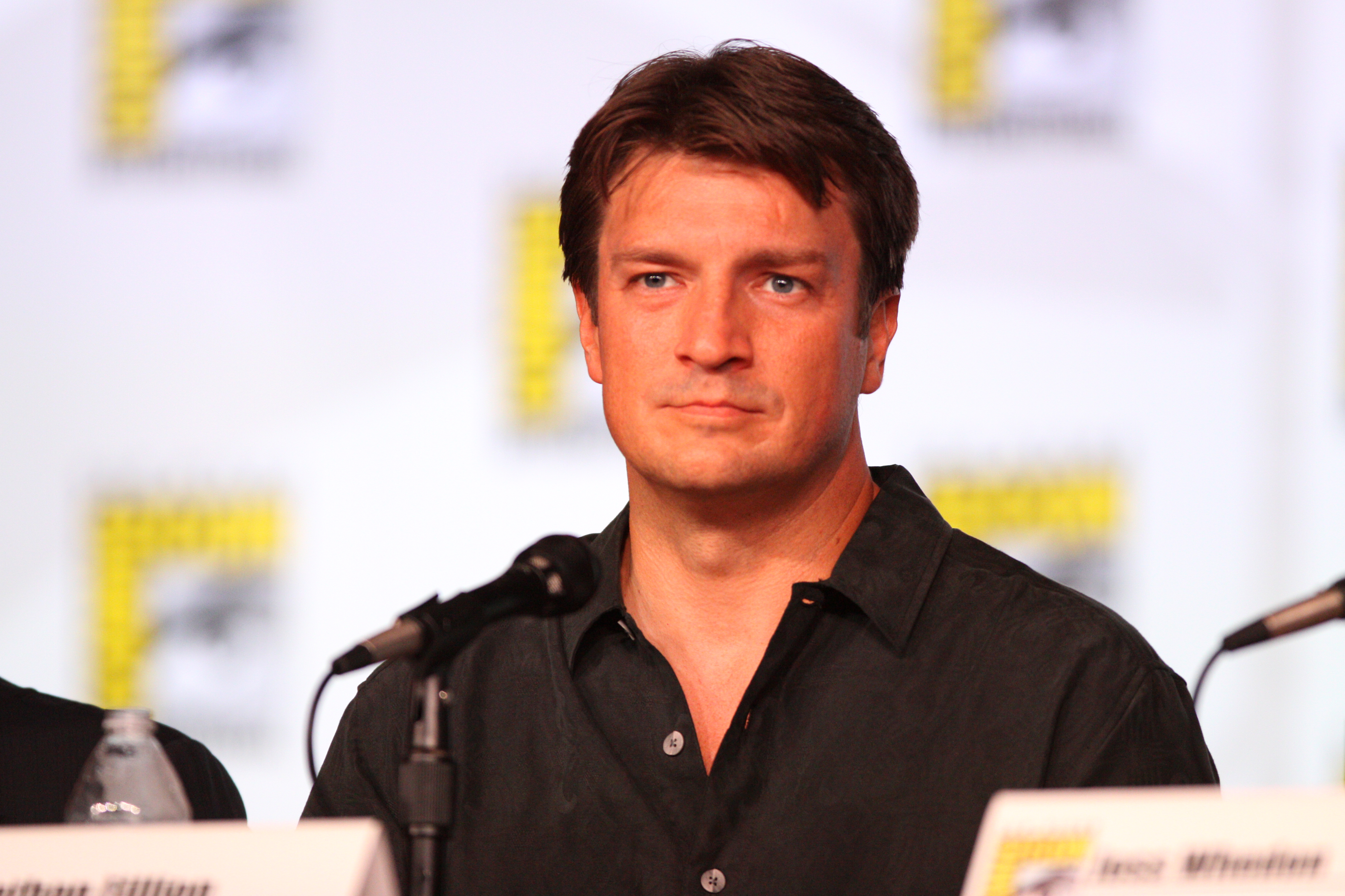 Nathan Fillion speaking at the 2012 San Diego Comic-Con International in San Diego, California.